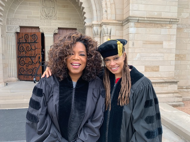 This shot was taken at a ceremony where both professor Twine and Ms. Winfrey received honorary doctorates at Colorado College in May, 2019